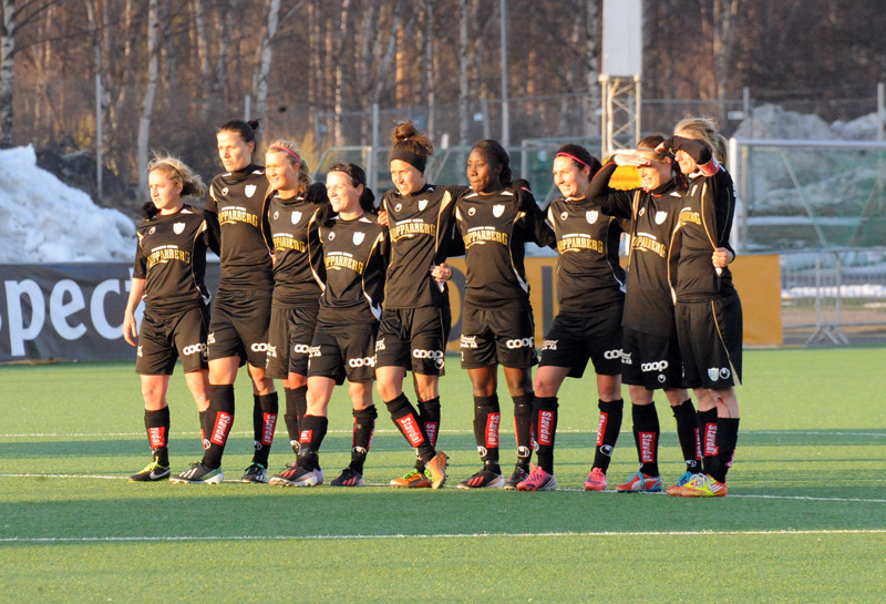 Kopparberg / Göteborg FC during the 2013 Svenska Supercupen on April 1, 2013.